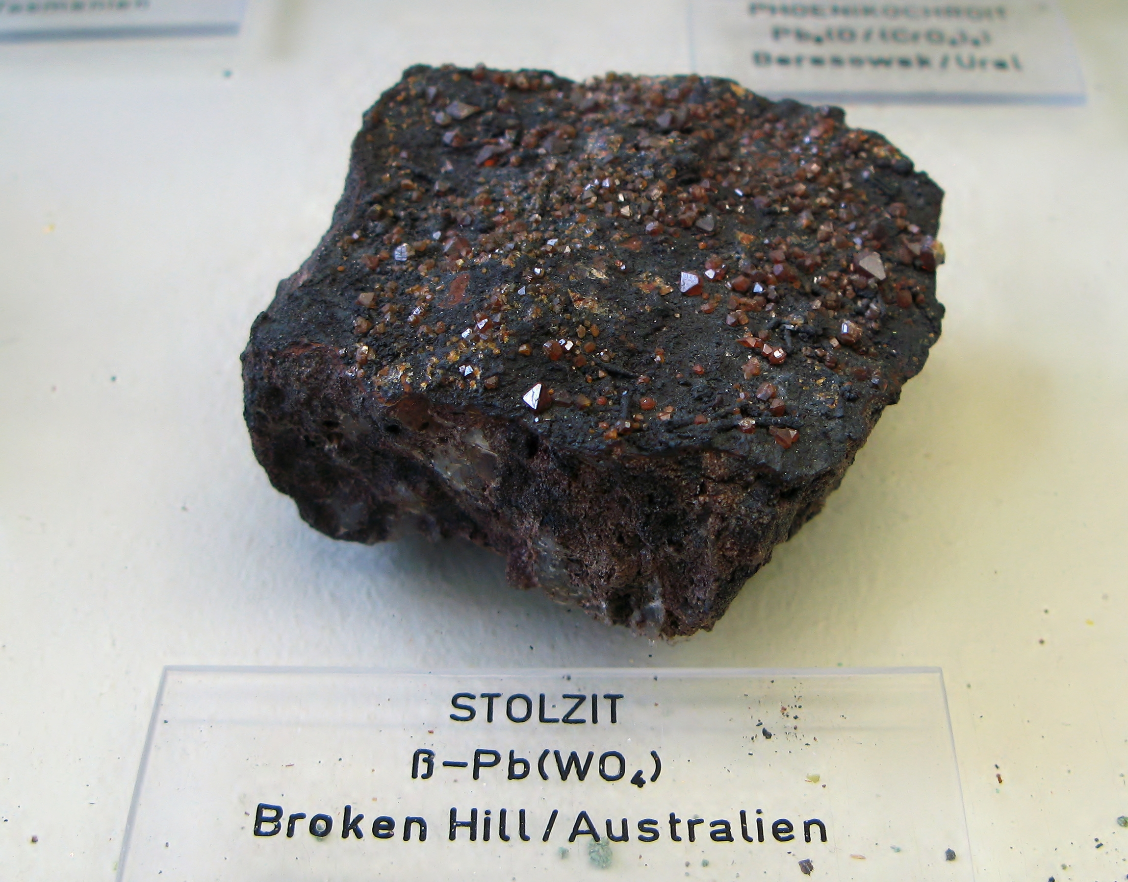 Stolzite - Locality: Broken Hill, Australia - Exposed in the Mineralogical Museum, Bonn, Germany